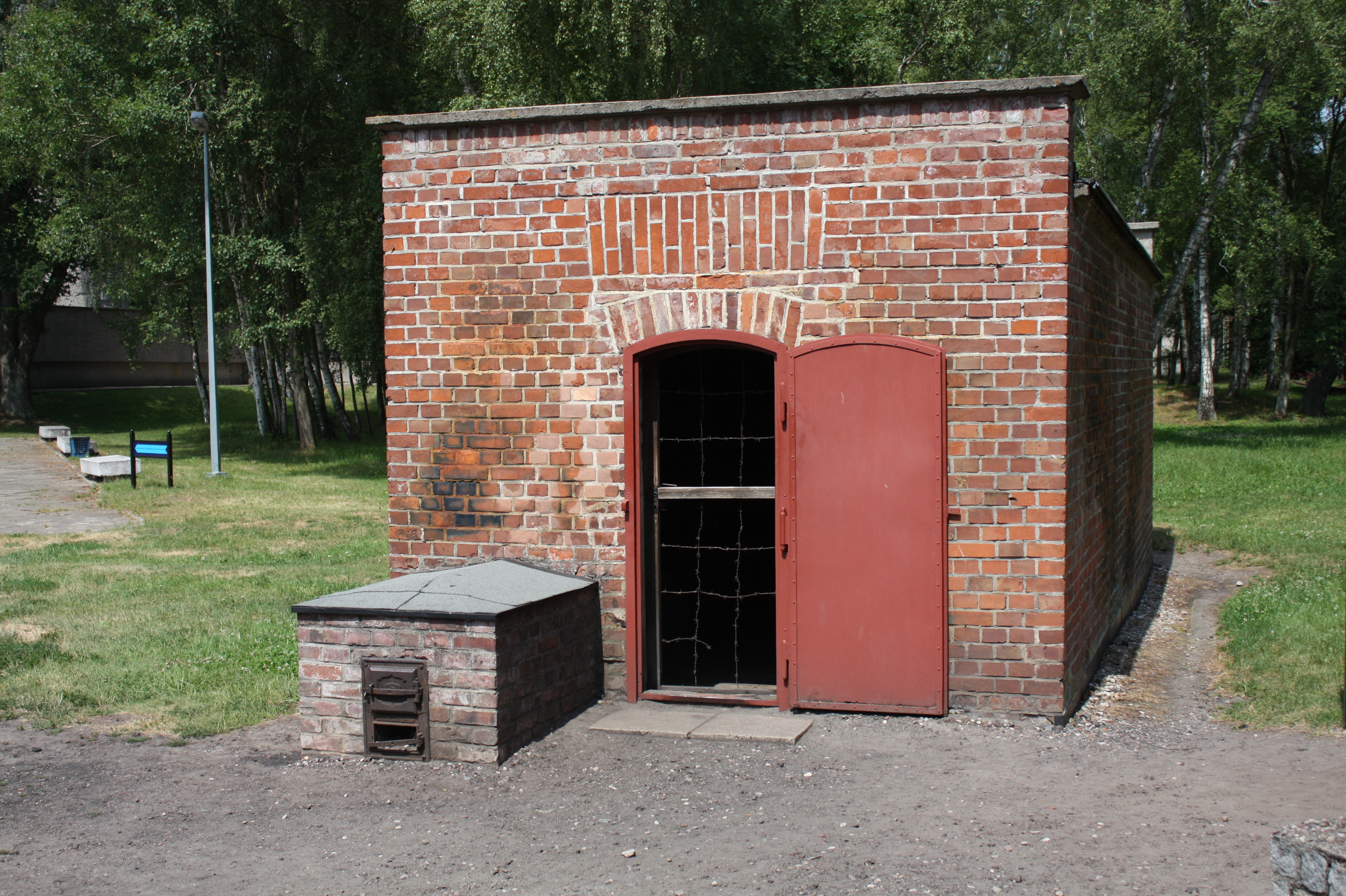 Sztutowo, KZ Stutthof, Gas chamber